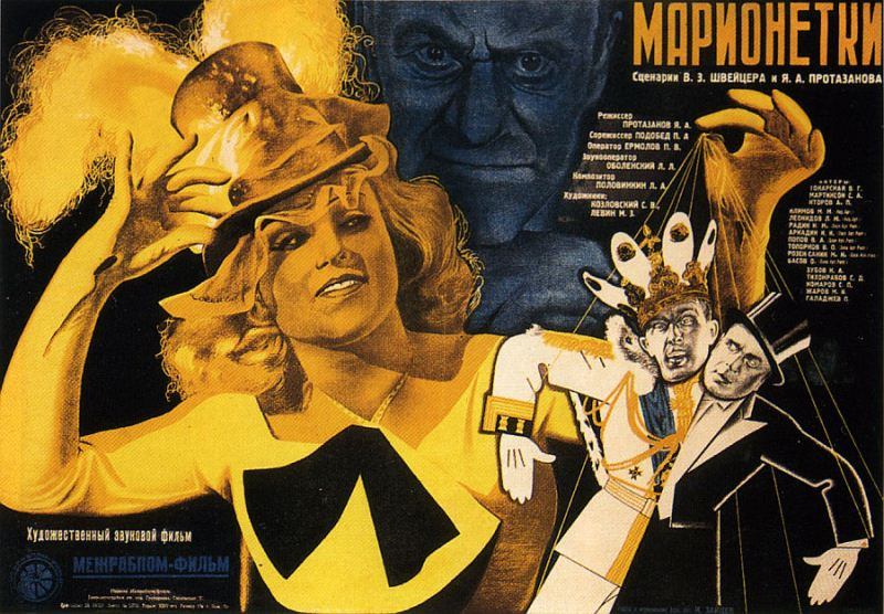 Theater Poster 1934 for the film Marionettes director Yakov Protozanov.